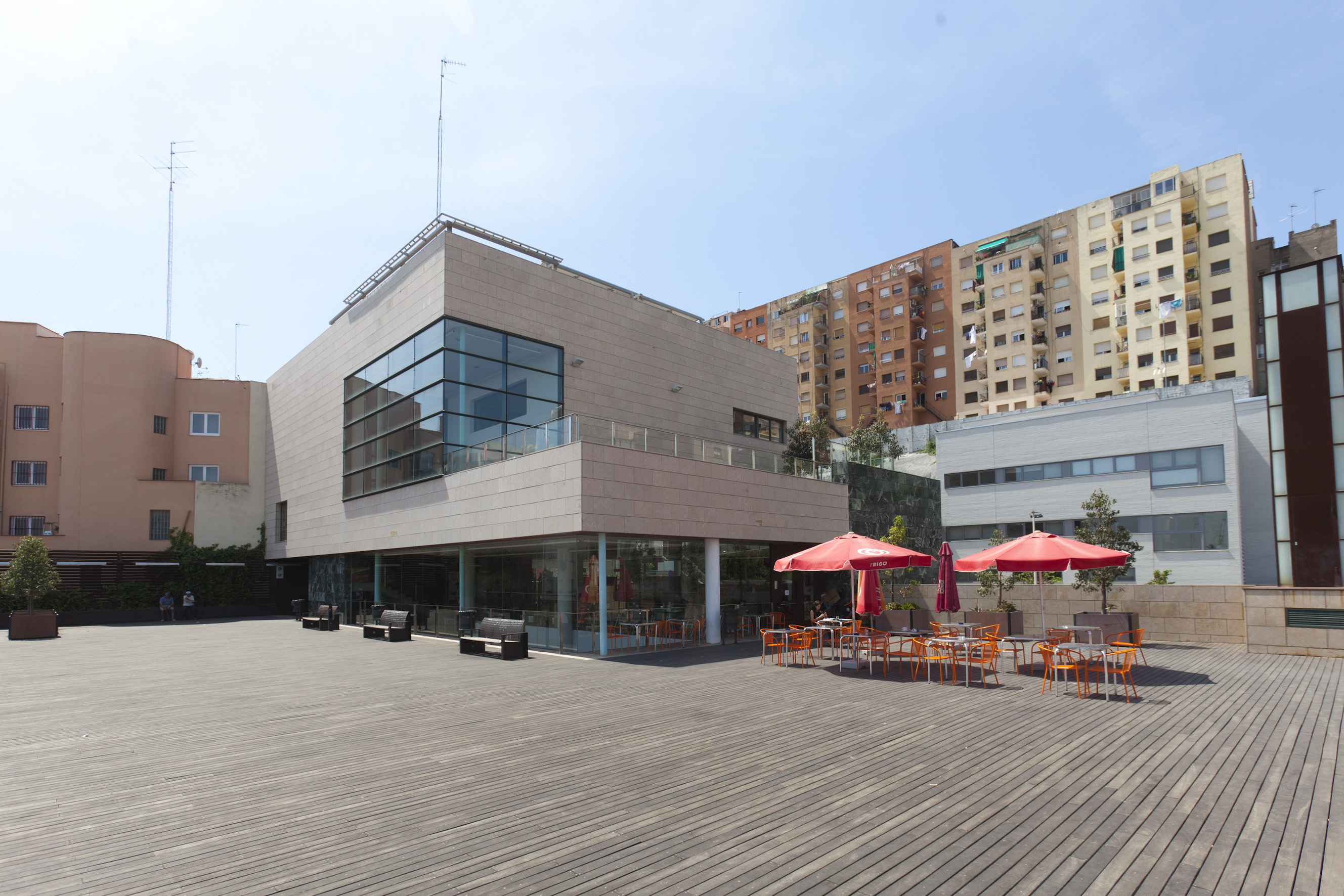 Historical Routes at the Horta-Guinardó District Administration in Barcelona This image was provided to Wikimedia Commons by the Horta-Guinardó District Administration in Barcelona as part of an ongoing cooperative project with Amical Viquipèdia. English | +/−